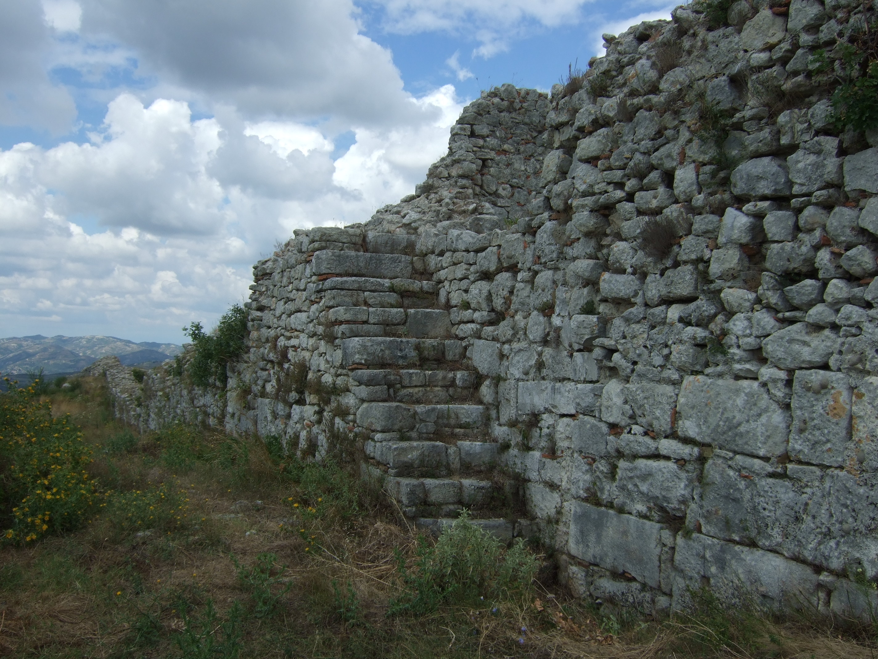 Wall of Victorinius in Byllis with steps and remains of a tower.